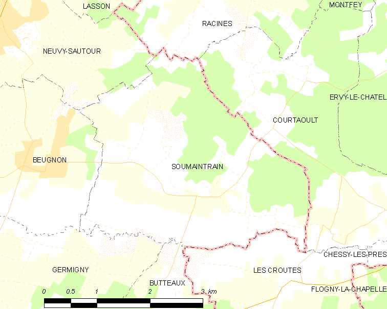 Map of French municipality Soumaintrain